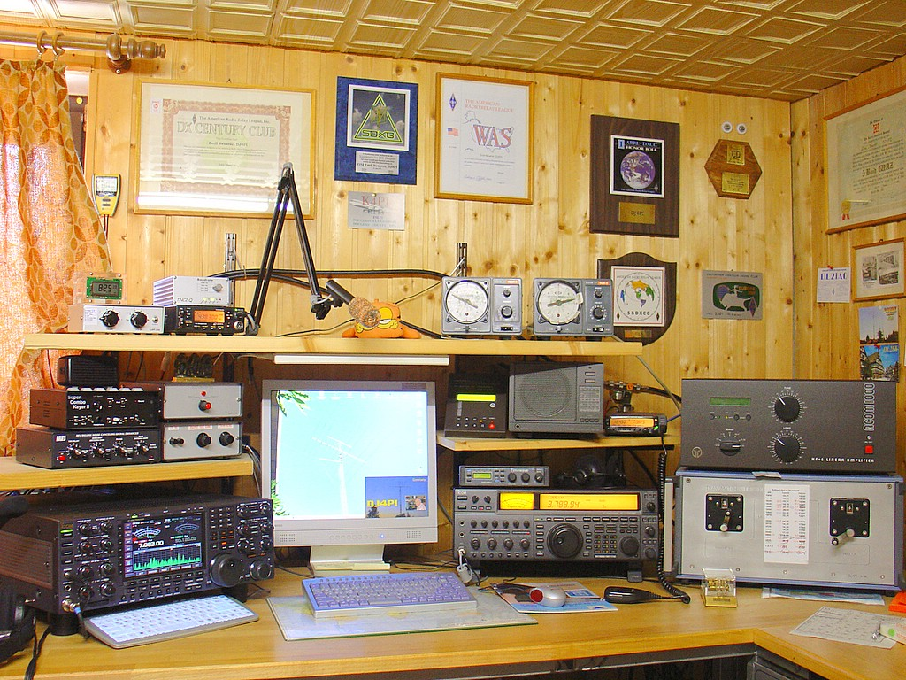 Amateur radio station of DJ4PI